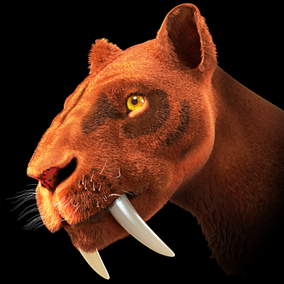 A detail of Cicero Moraes's reconstruction of a Smilodon.